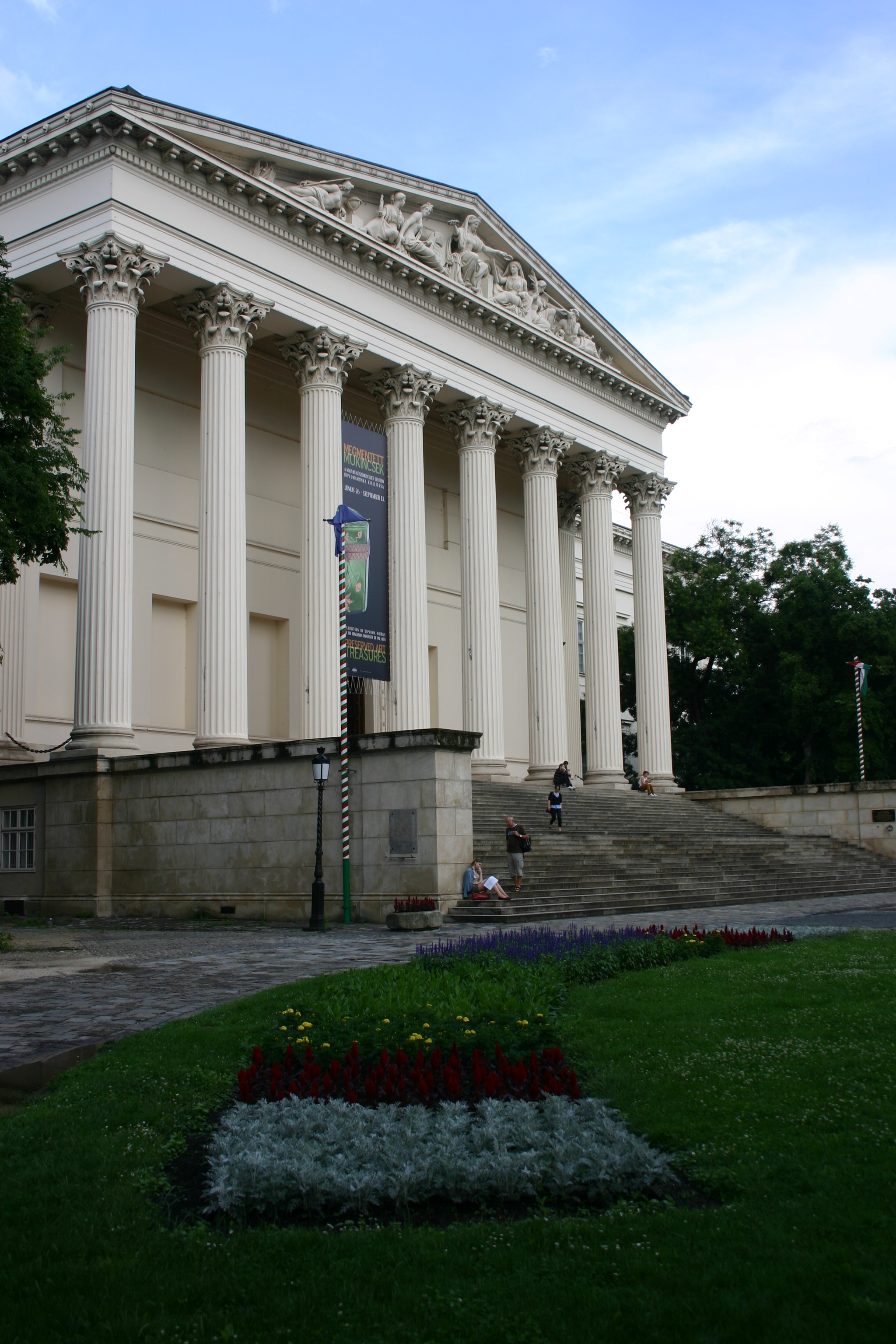 The National Museum in Budapest (Nemzeti Múzeum)